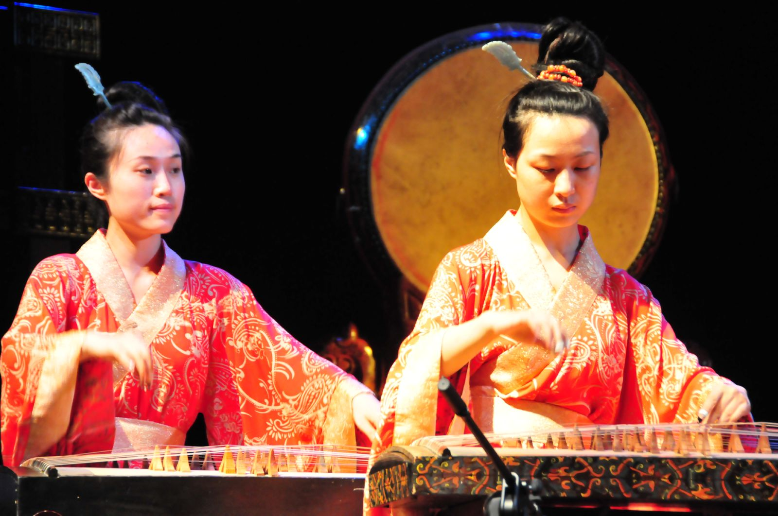 A traditional Chinese instrument performance at the Henan Museum in Zhengzhou.